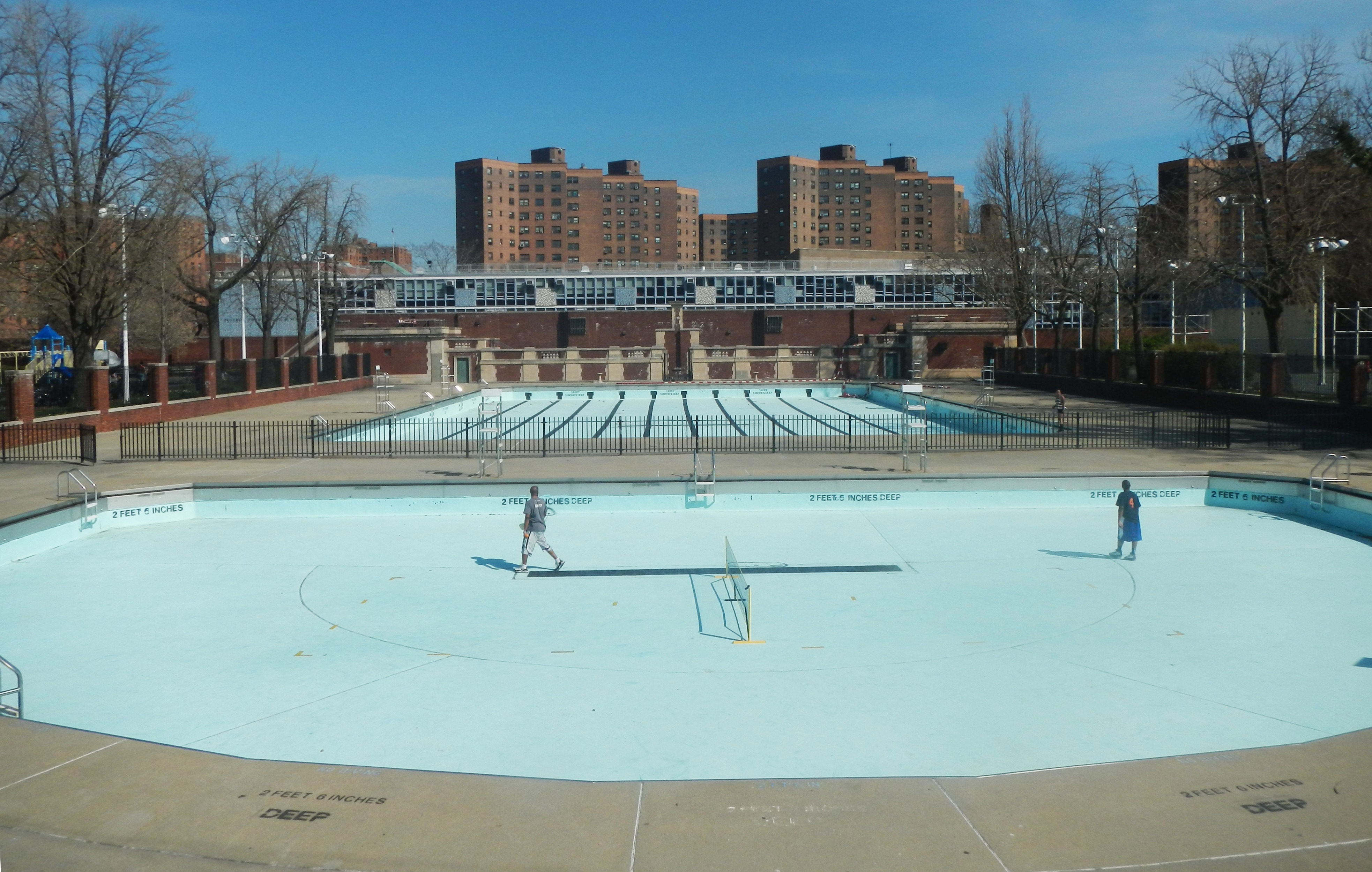 Looking east at dry pools on a sunny day. EXIF is a quarter mile too far west due to photographer's error.